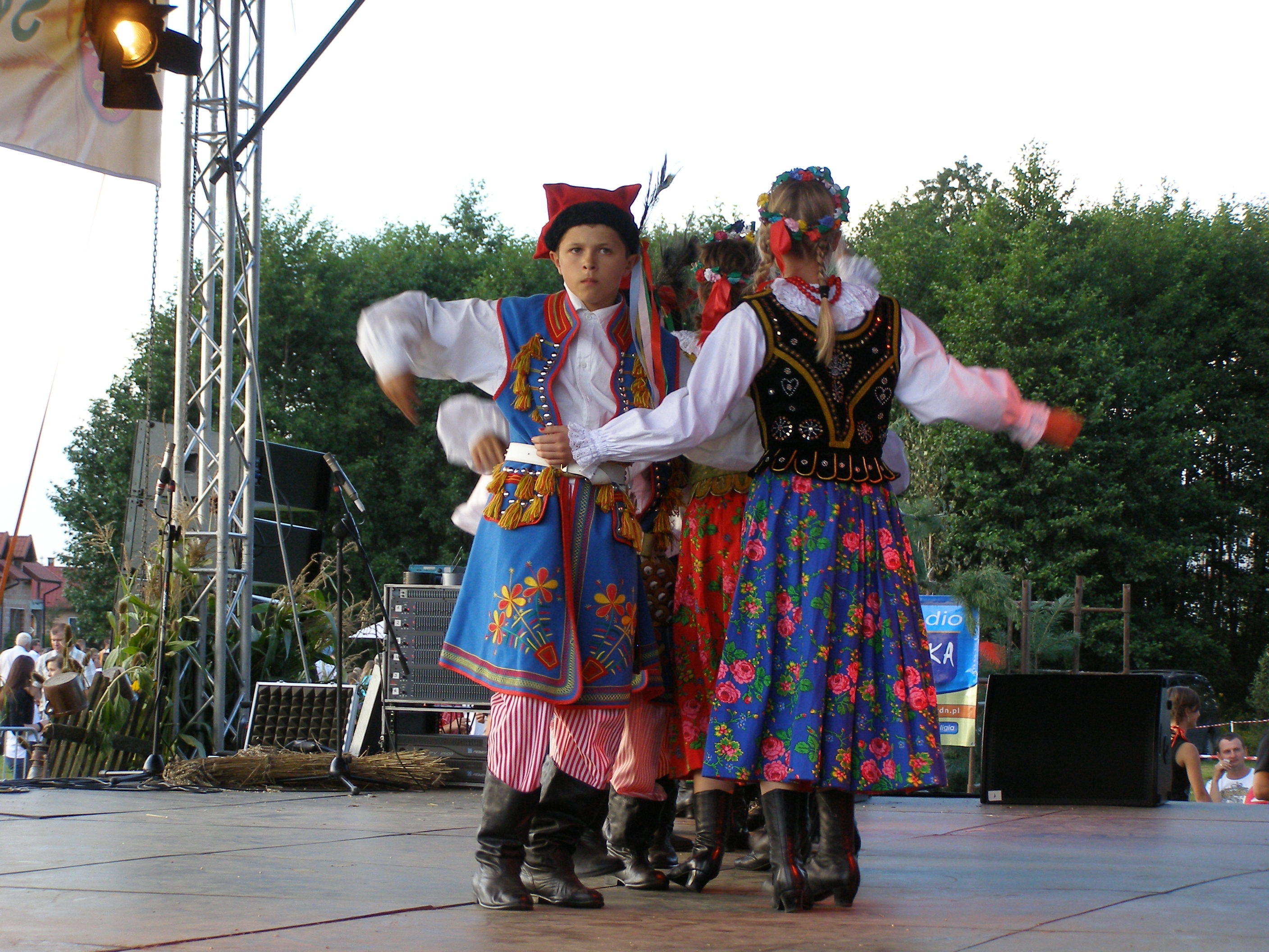 Mędrzechów - feast of harvest of the dąbrowski county